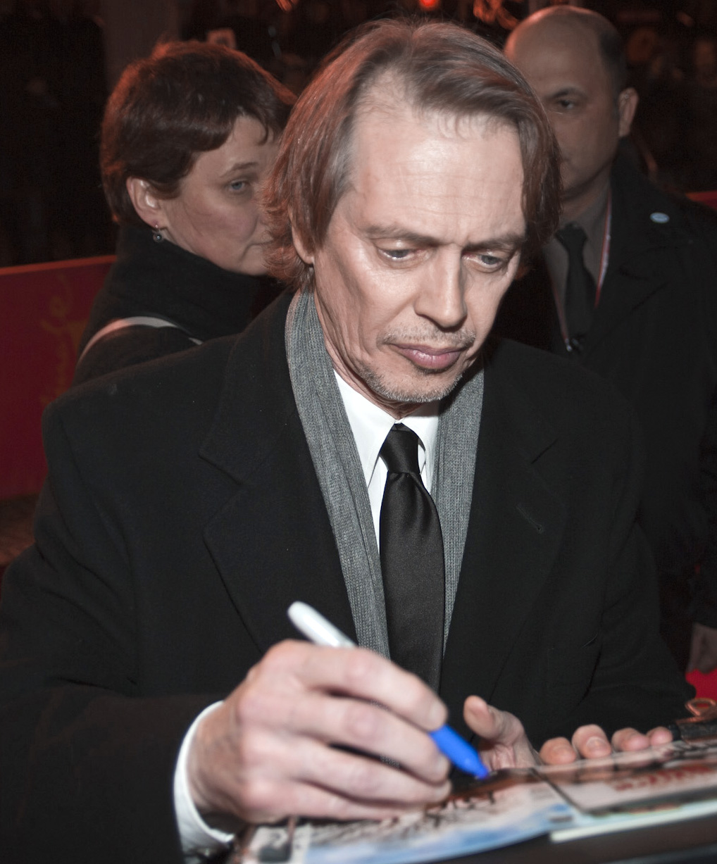 Steve Buscemi, Premiere of the movie "John Rabe" at the Berlin Friedrichstadtpalast